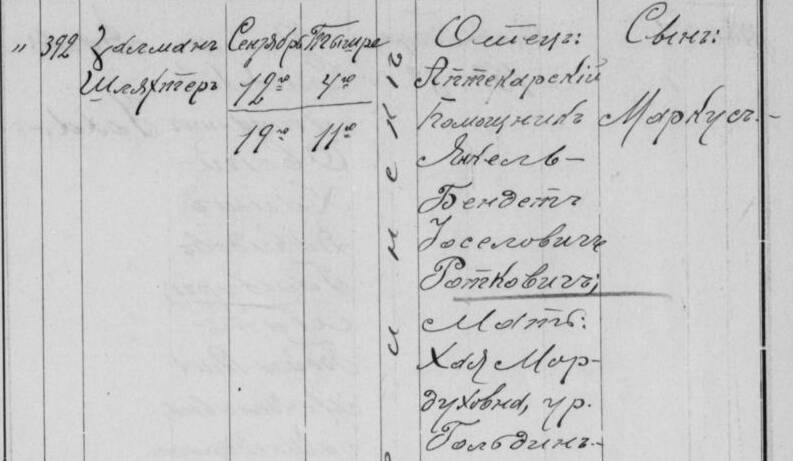 Riga Vital records.Mark Rothko's birth record